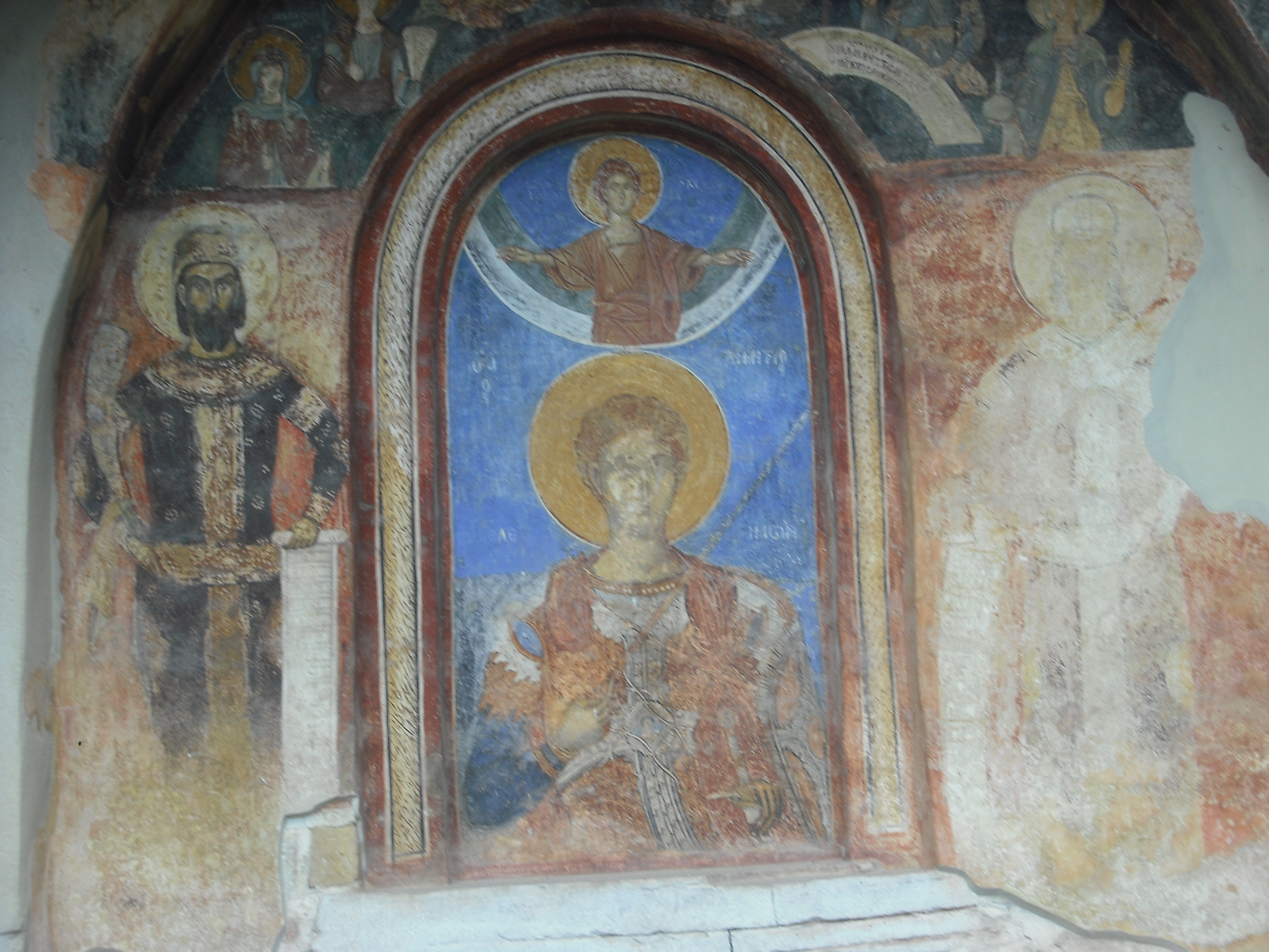 A fresco at Marko's Monastery near Skopje, Macedonia showing King Marko (Krale Marko) and his father King Volkashin